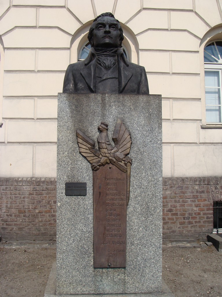 Śrem, monument of Józef Wybicki.